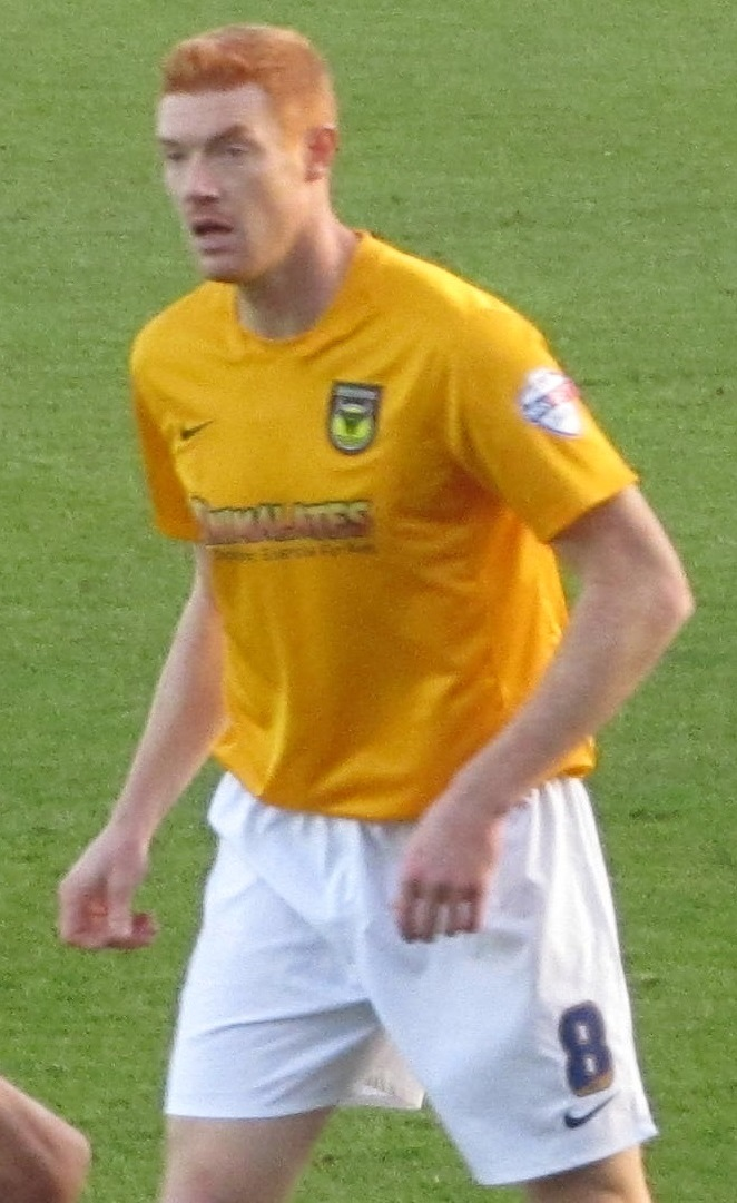 Dave Kitson.